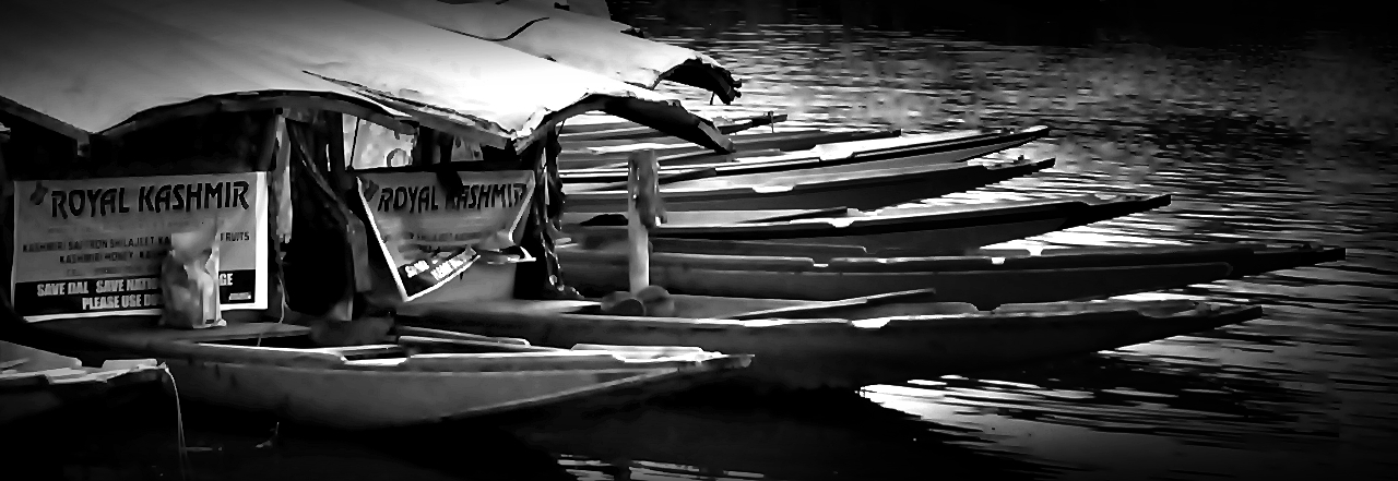 photos of shikara at dal lake kashmir